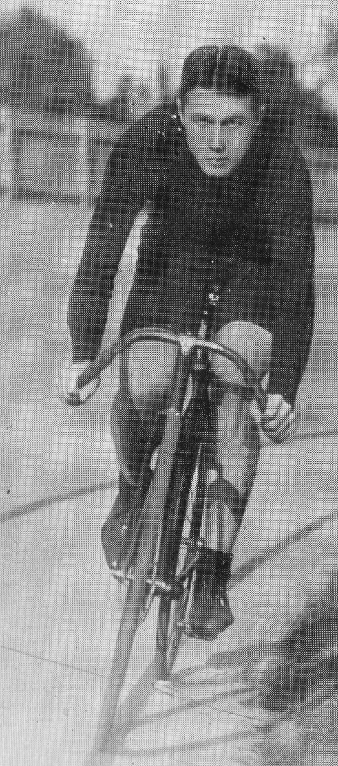 Depicted person: Iver Lawson